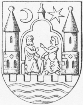 Coat of arms of Århus, a chartered town in Denmark, 1423 version. Illustration from the article Om danske By- og Herredsvaaben written by Anders Thiset and published in Tidsskrift for Kunstindustri 1893-1894.